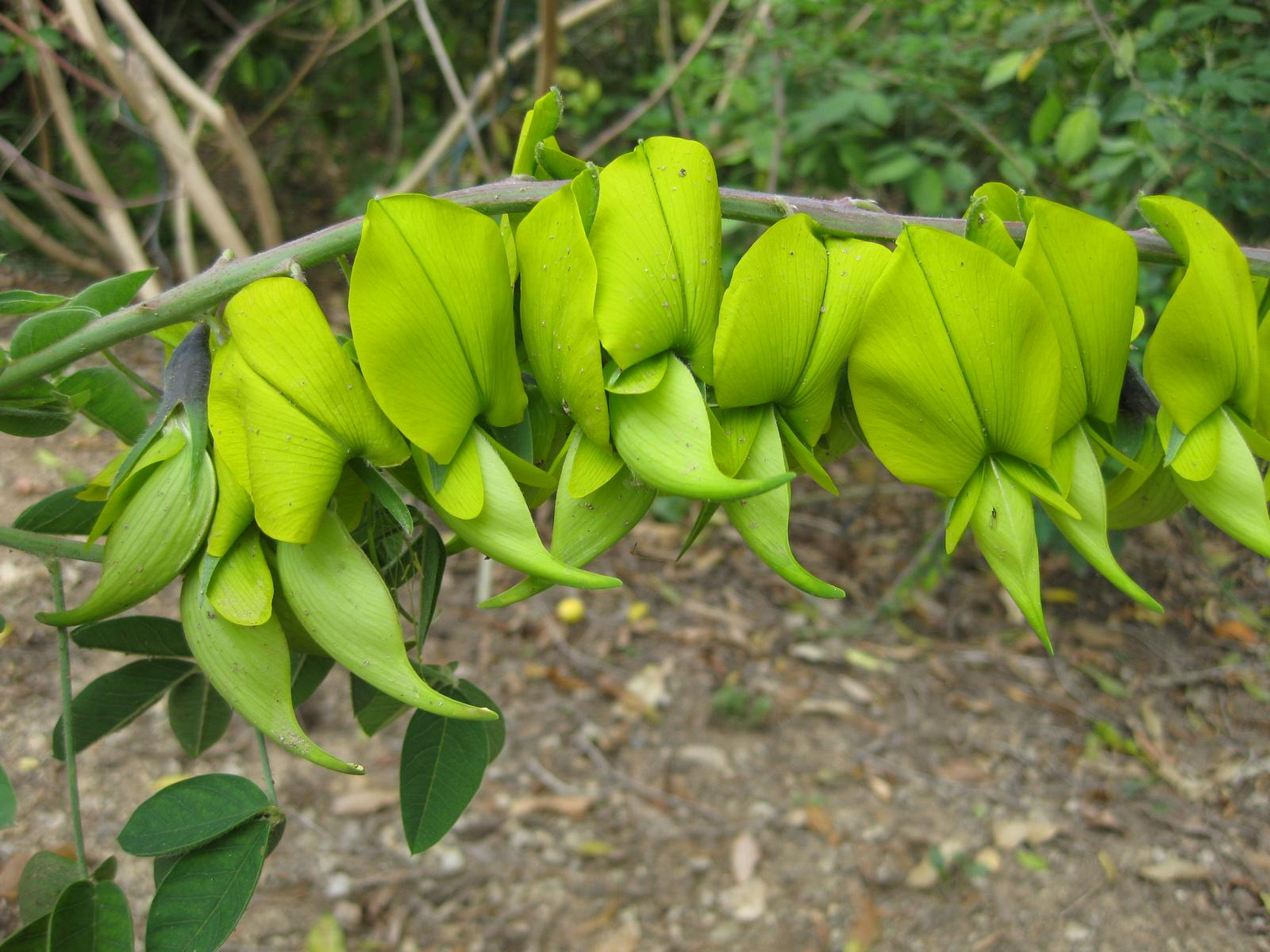 Crotalaria agatiflora subsp. imperialis. Photographed at Huntington Gardens (Los Angeles) in April